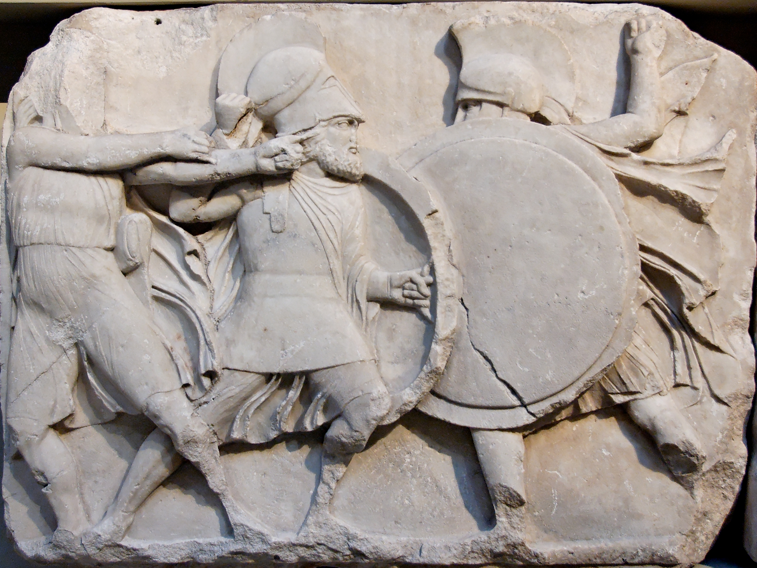 Two warriors clash their shields while on the left an archer aims an arrow. Fragment of the greater podium frieze from the Nereid Monument at Xanthos in Lycia, ca. 390–380 BC.